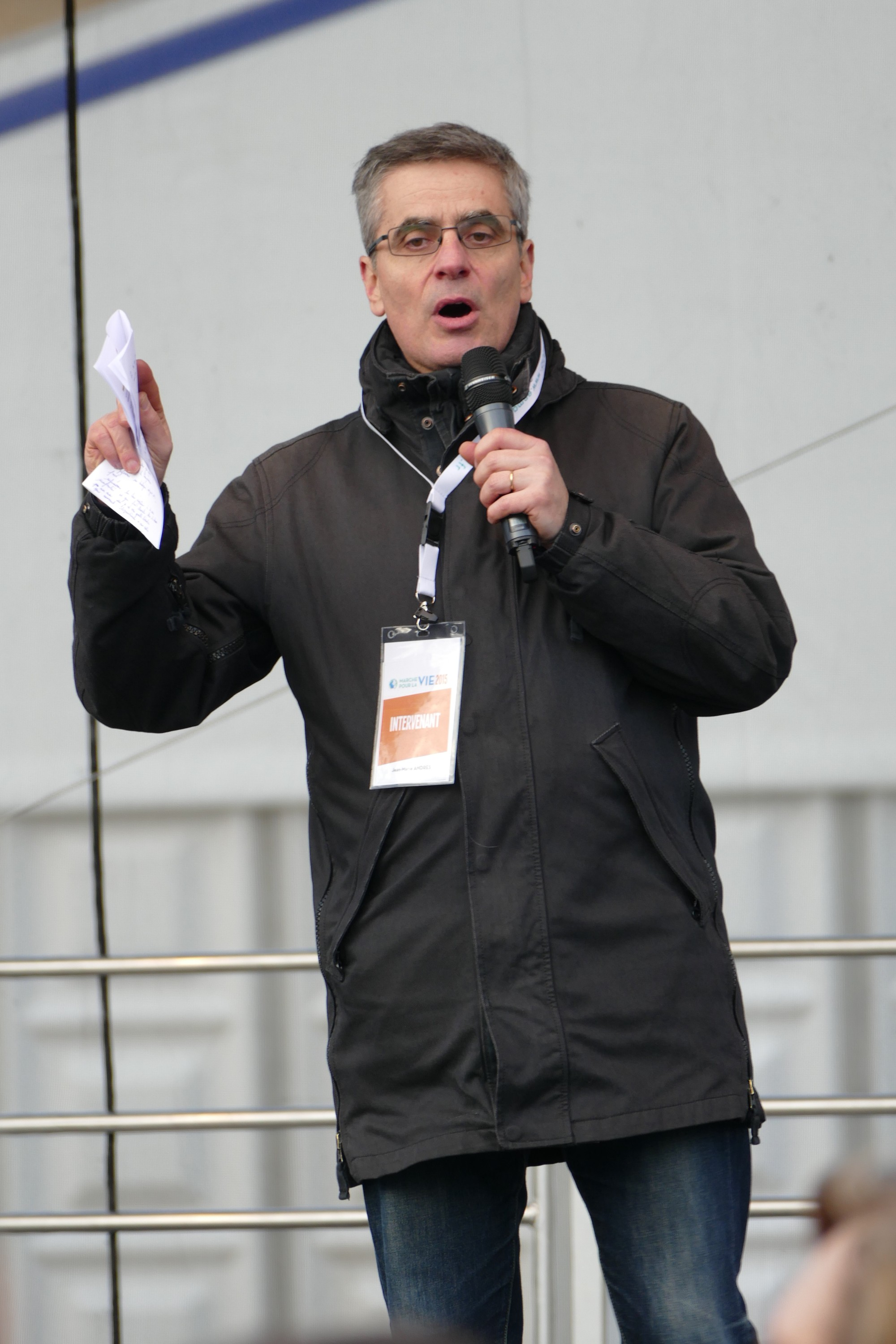 March for Life 2015 in Paris (Île-de-France, France).